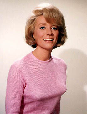 Inger Stevens in A Guide for the Married Man (1967) - publicity still (cropped - original image : see source)